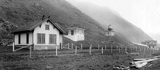 Public Domain statement here; Punta Gorda Lighthouse is a lighthouse in United States, 12 miles south of Cape Mendocino, California.